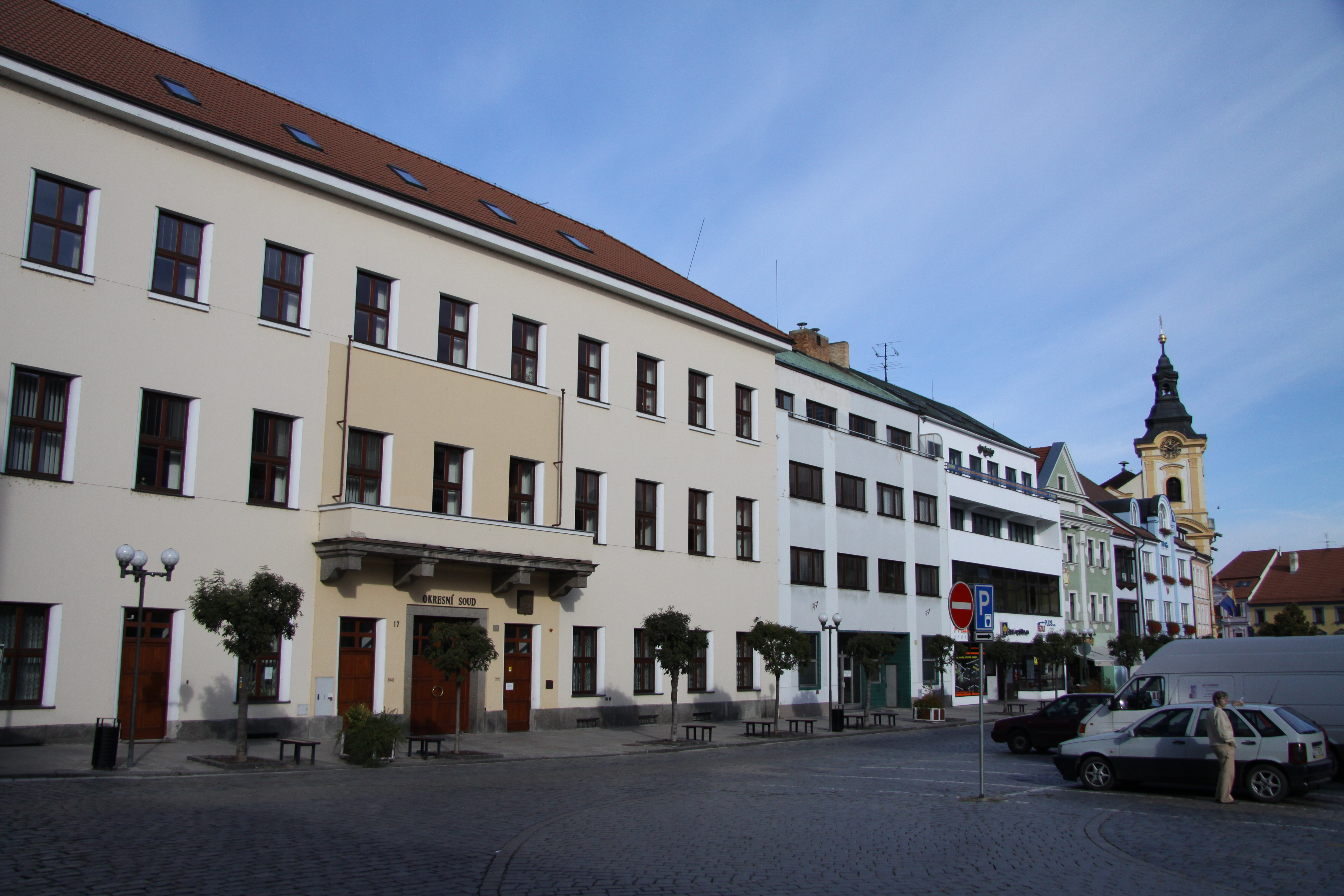 Building of Court on Velké square in Písek, Písek District, Czech Republic - Google Maps - Google Earth